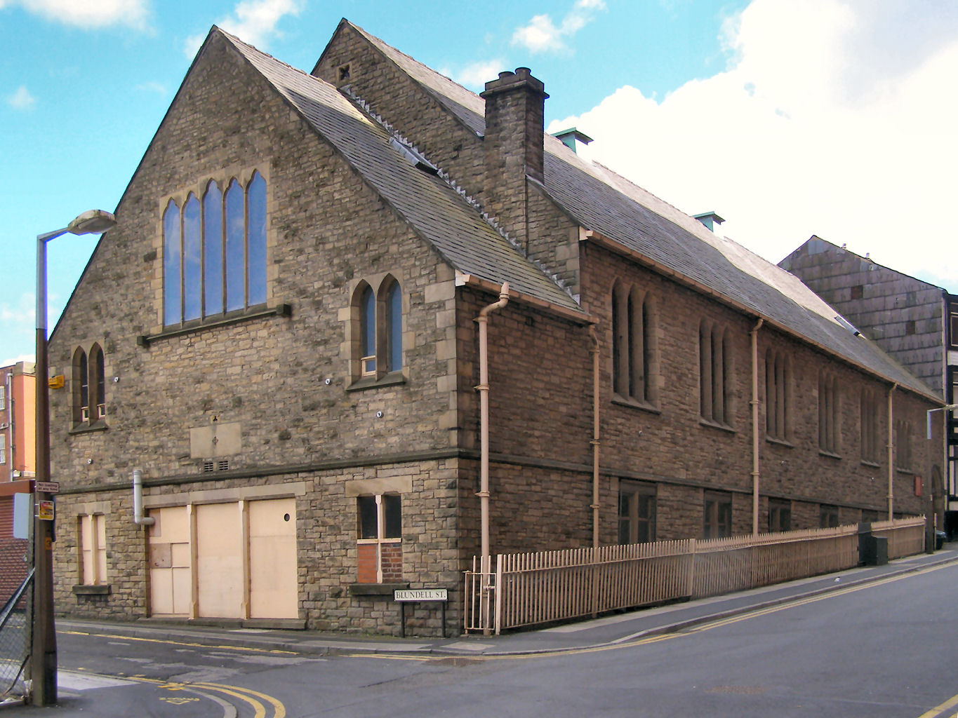 Roman Catholic church of St Edmund, Bolton, Greater Manchester, seen from the northeast